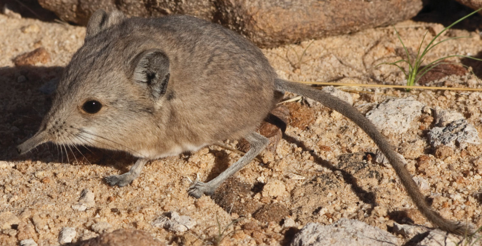 The Namib round-eared sengi (Macroscelides flavicaudatus), south of the Micberg formation, Kunene Region, Khorixas District, 7 May 2010, specimen number CAS MAM 29700